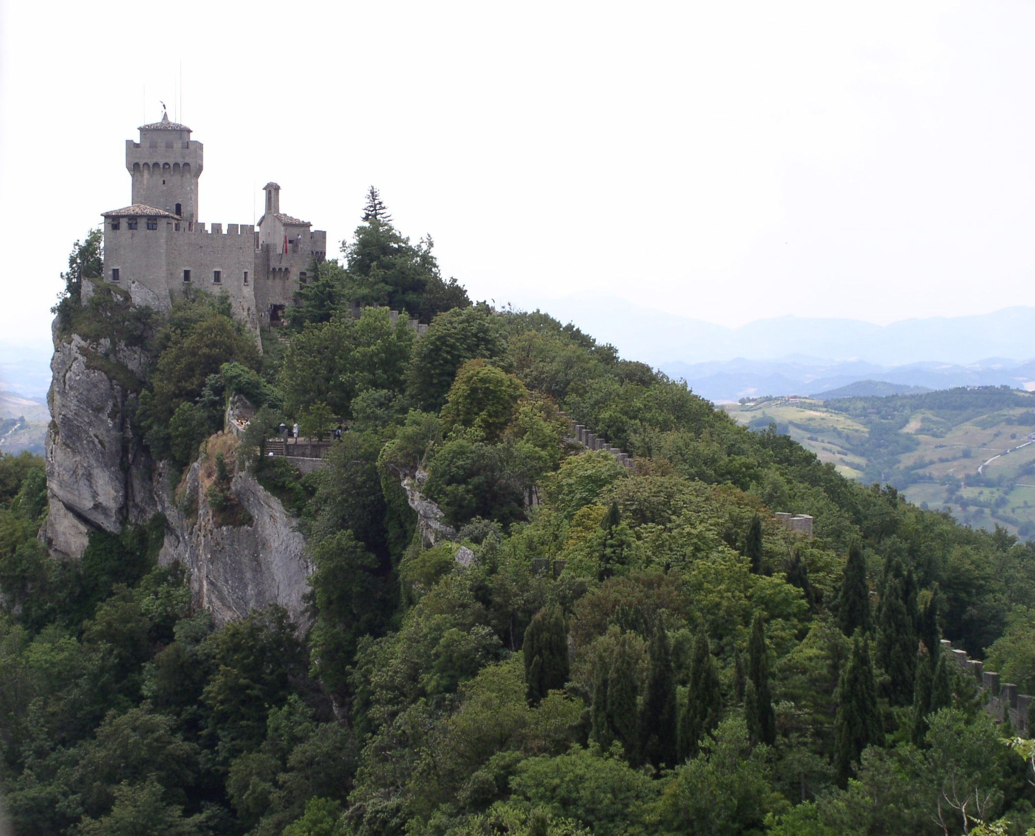 Cesta tower in San-Marino